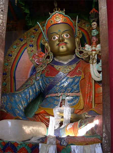 Padmasambhava’s statue. Hemis monastery (Ladakh, Jammu and Kashmir, India)